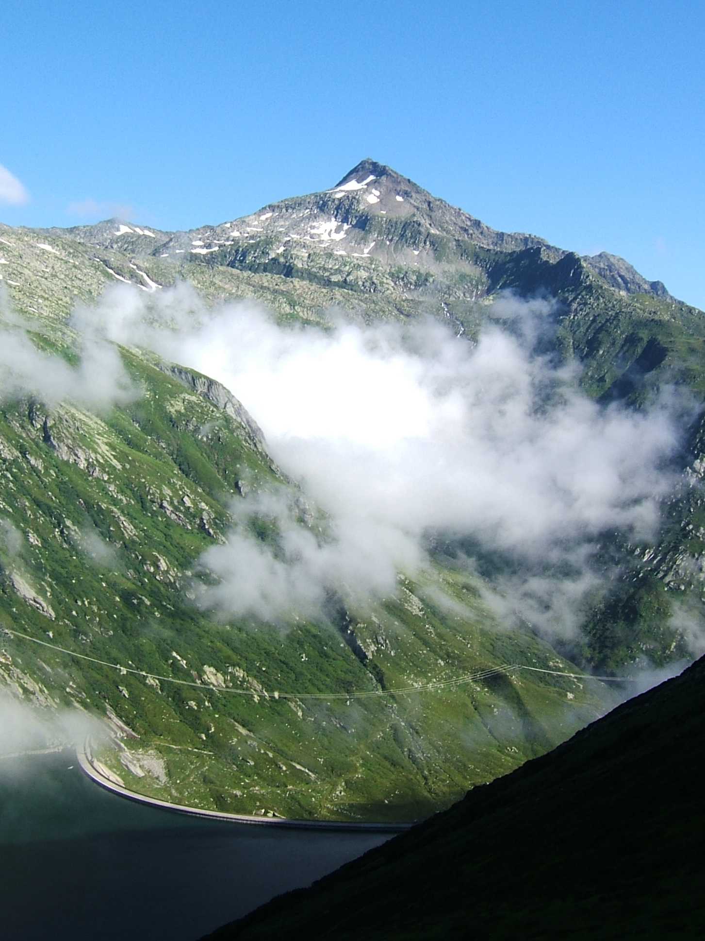 Piz Gannaretsch from southeast, from west ridge of Scopi